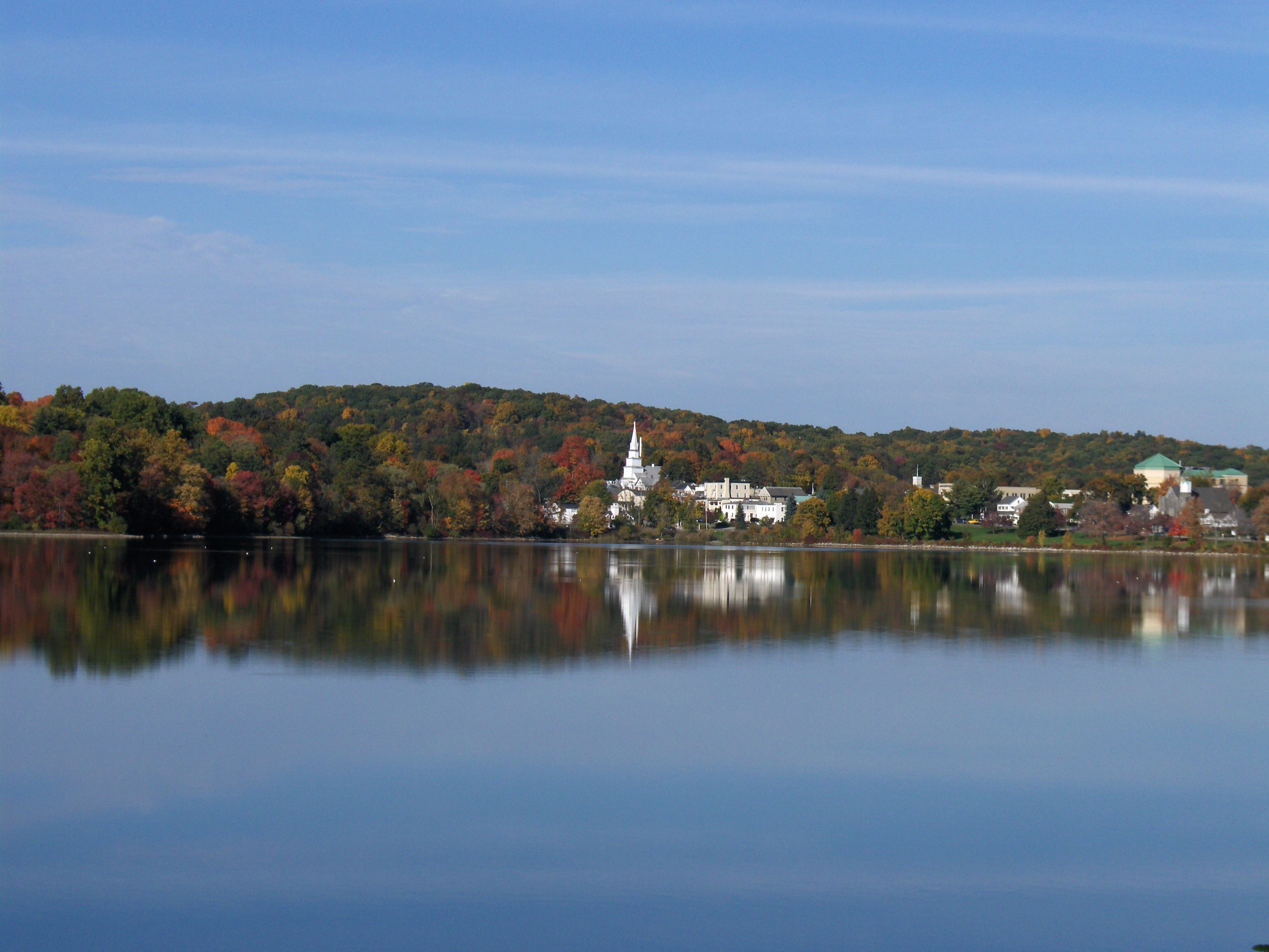 A View of Carmel NY on Route 6